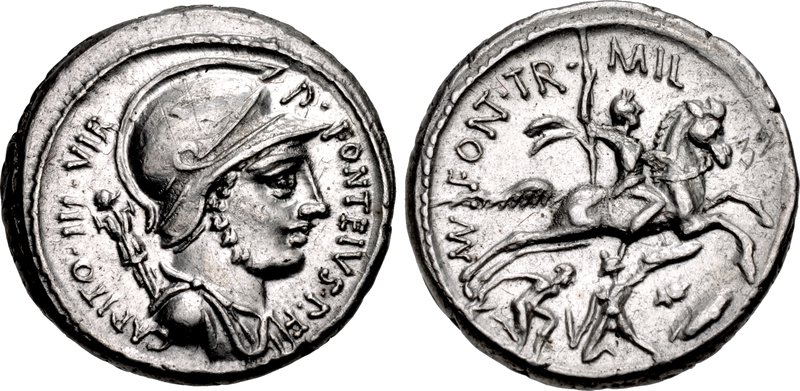 P. Fonteius P.f. Capito 55 BC. AR Denarius (18mm, 3.97 g, 12h). Rome mint. Helmeted and draped bust of Mars right, with trophy over shoulder; P • FONTEIVS • P • F • CAPITO • III • VIR around / Warrior on horseback galloping right, thrusting spear at kneeling enemy in Gallic helmet, who holds sword in right hand and shield in left; to lower left, a second enemy warrior kneeling right; Gallic helmet and shield to lower right; (MN) • FO(NT) • TR • MIL above. Crawford 429/1; Sydenham 900; Fonteia 17; RBW 1536. EF, small ‘32’ (collection number?) scratched in field on reverse. Well centered and struck. From the Dr. Alan Smith Collection. Ex Elvira E. Clain-Stefanelli Collection (Numismatica Ars Classica 92, Part I, 23 May 2016), lot 363.